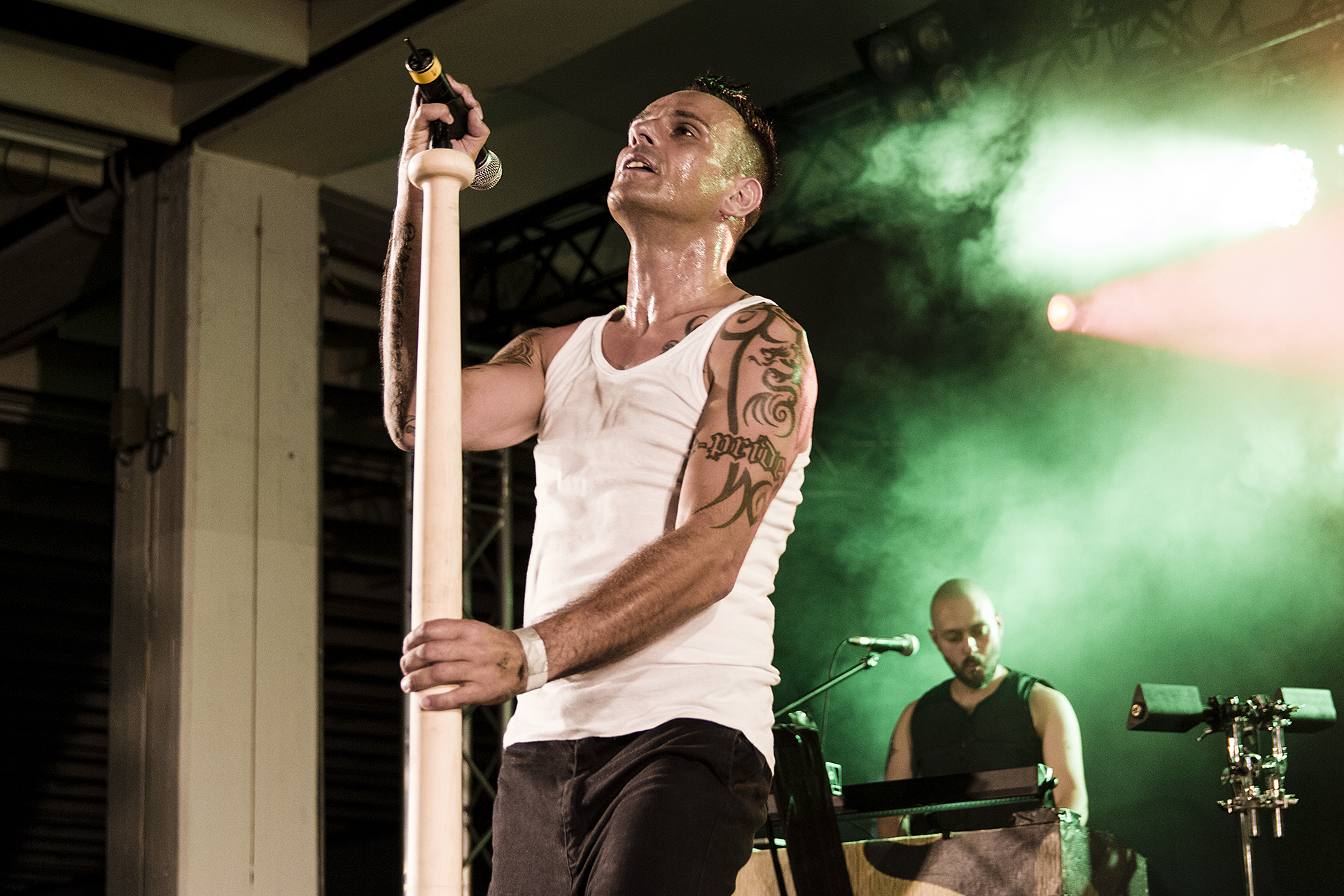 Funker Vogt auf dem Amphi Festival 2013 in Köln